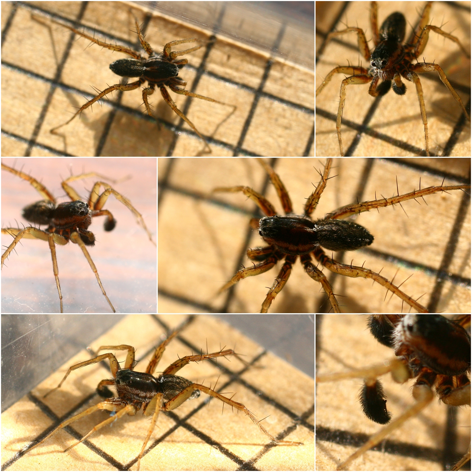 Pardosa nigriceps (Lycosidae). Identification based on shape of projection on palps (as in bottom-right photo). From southern heath, Bricket Wood Common, Hertfordshire, England, 10th April 2011. More Info... Species Summary from Spider Recording Scheme Map from NBN Gateway Pavouci CZ Jorgen Lissner - male, female